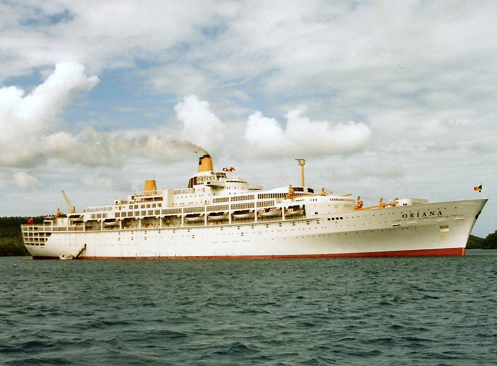 Oriana in Vava'u, Tonga 1985 Author Paul Dashwood